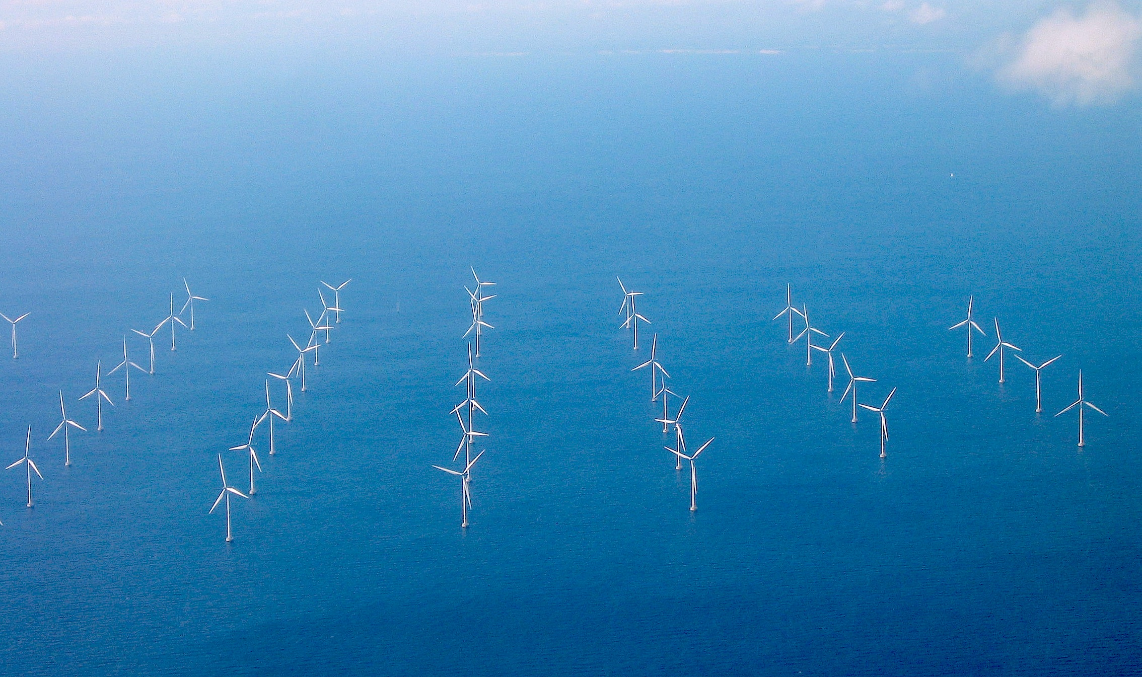 Lillgrund Wind Farm's wind turbines in the Sound near Copenhagen and Malmö